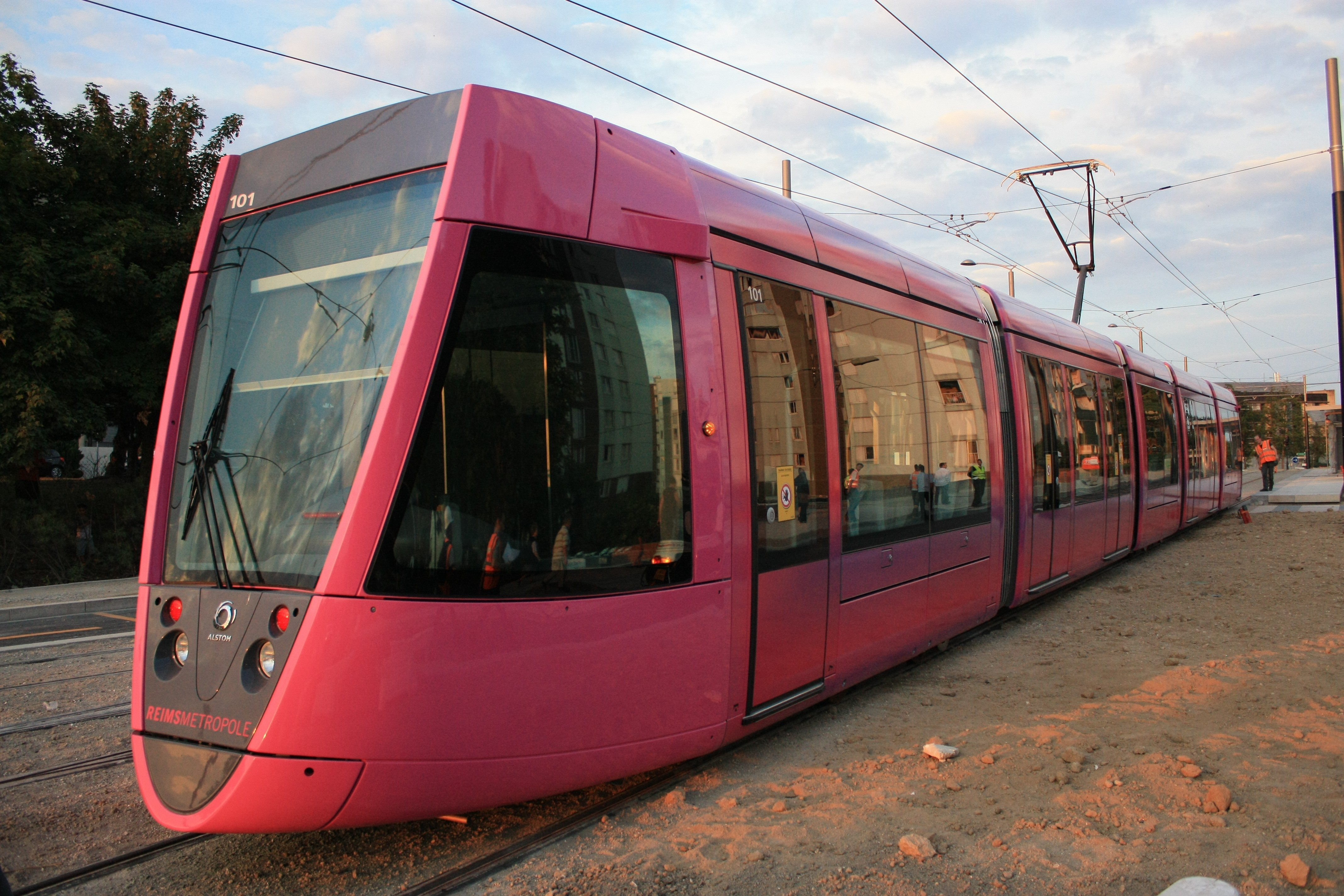 Alstom Citadis TGA 302 TORA on test. Rheims France.